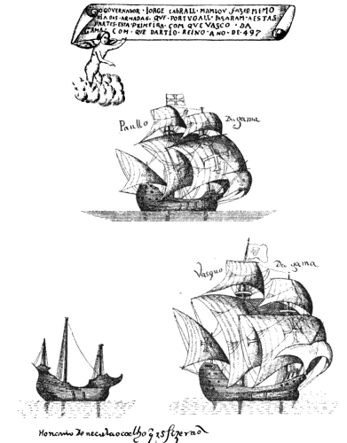 Pictures of the "Sao Gabriel", "Sao Rafael", and "Berrio" are by Visconde de Juromenha done around 1558 after a paiting made on order by D. Jorge Cabral, Governor of India, 1549-50. The picture was copied from a publication by Alvaro Velho: A journal of the first voyage of Vasco da Gama, 1497-1499, published 1898.[1]